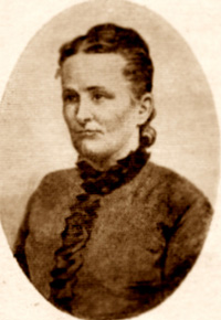 Anna Alexandrovna Kirpishtshikova, 1927